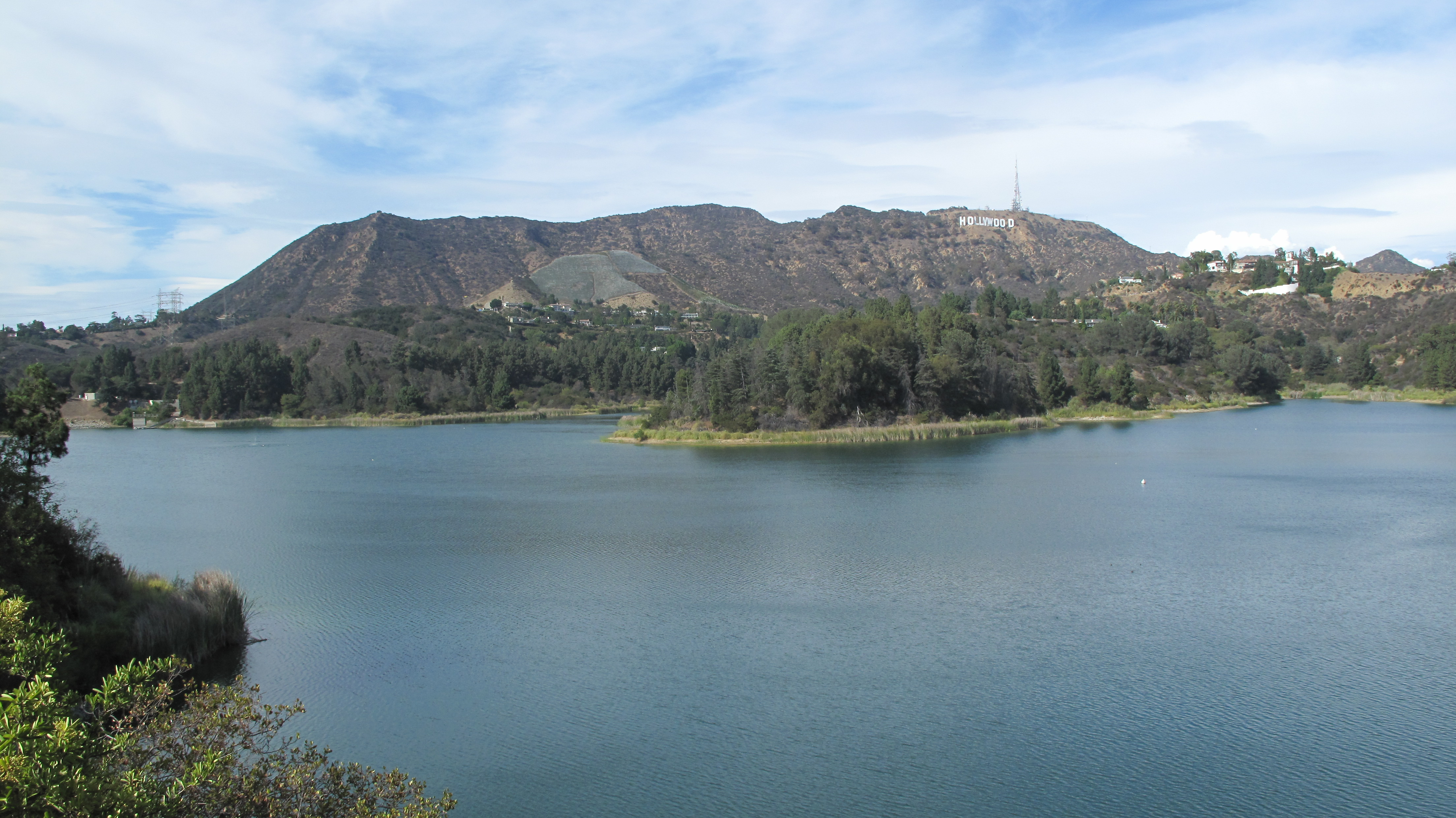 A gorgeous view across the Hollywood Reservoir to Burbank Peak, Cahuenga Peak, Mount Lee, and the Hollywood Sign. See annotations.